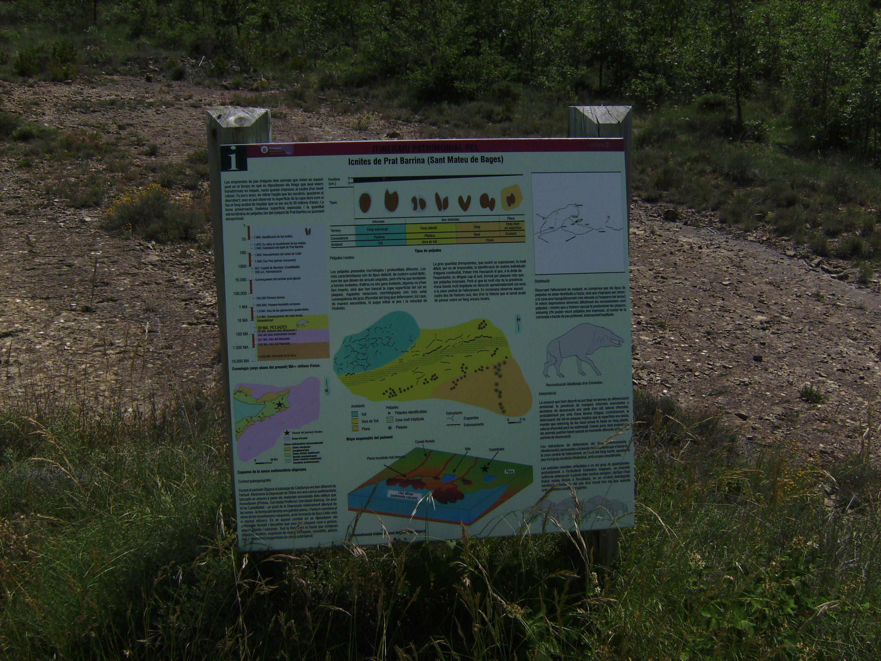 Poster explaining ichnites from Oligocene (in catalan language:"Icnites") , Castelltallat, Catalonia